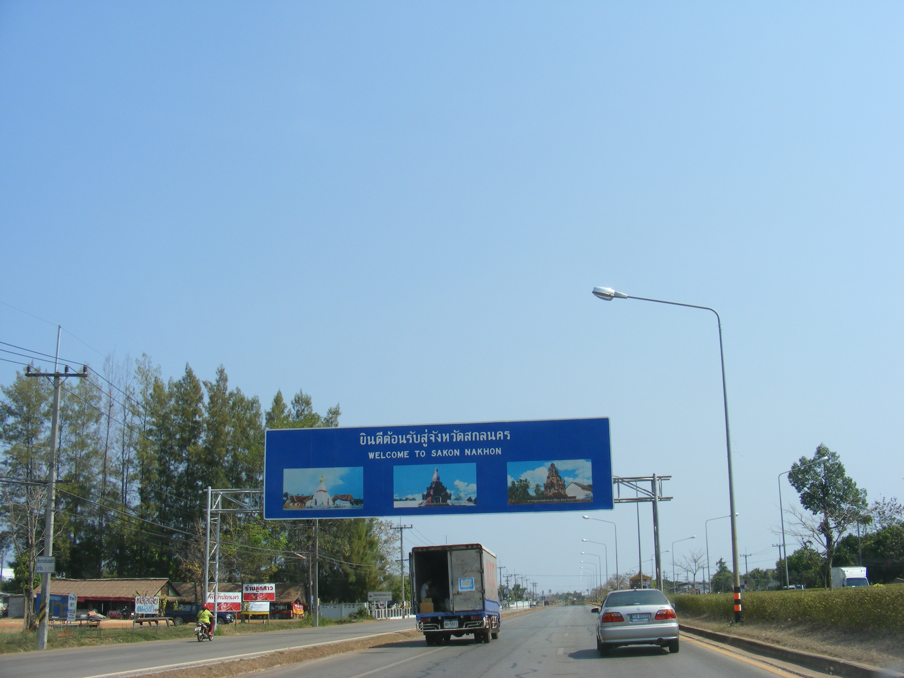 "Welcome to Sakon Nakhon" road sign, Thailand.